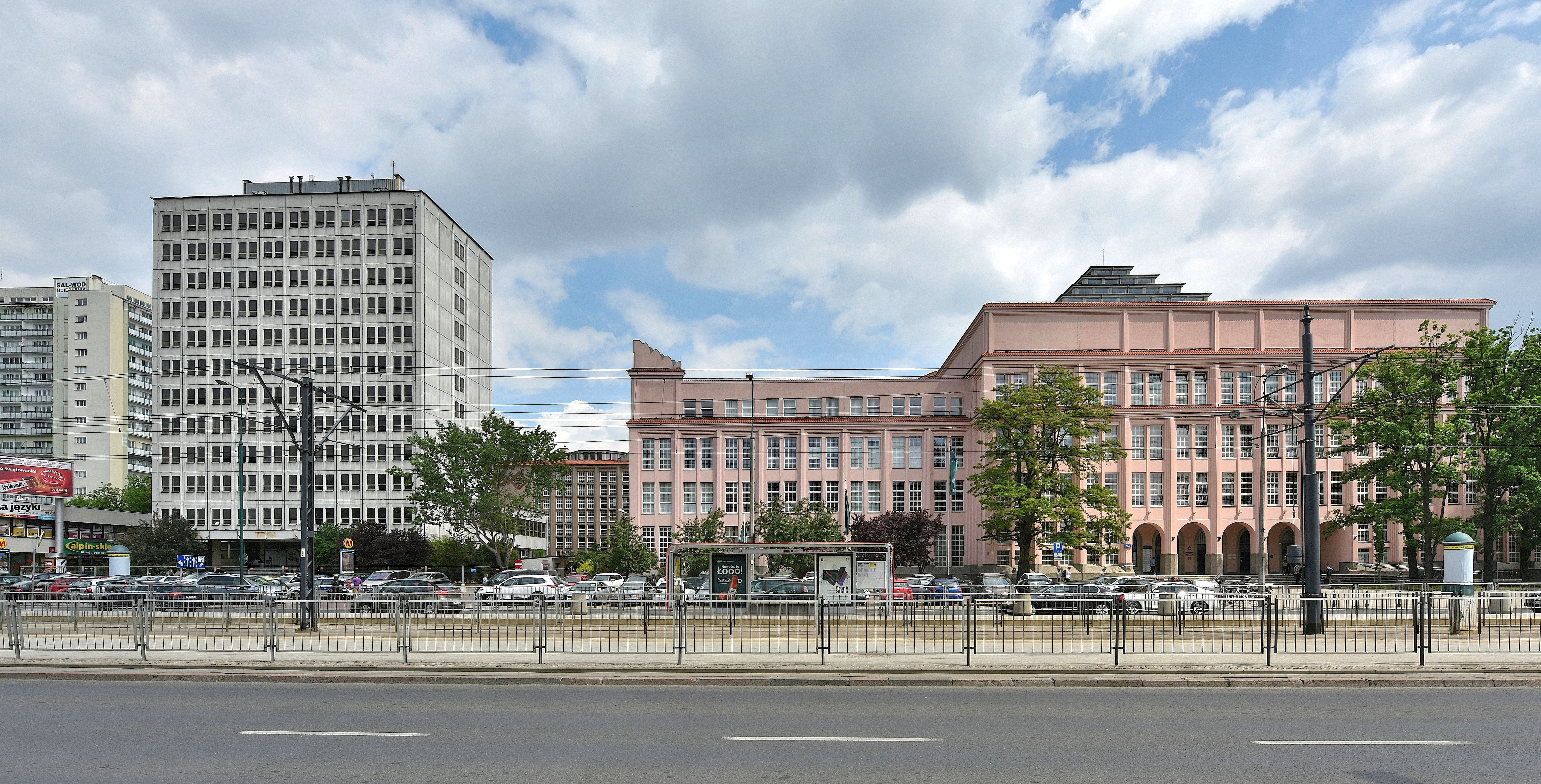 Warsaw School of Economics